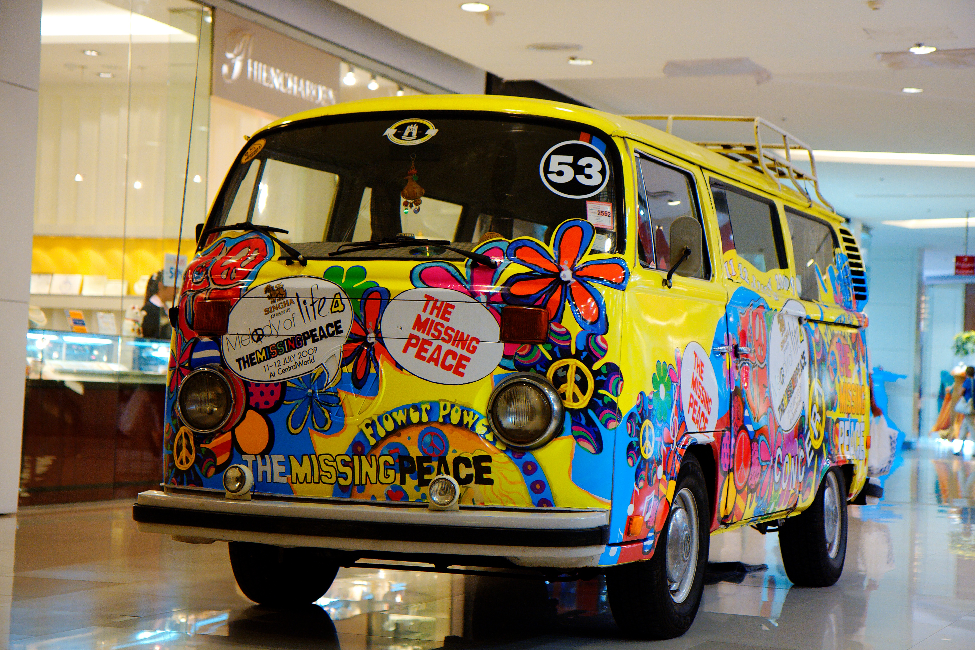 Post processed by DxO Fuji Velvia 100 profile to enhance the vivid color.